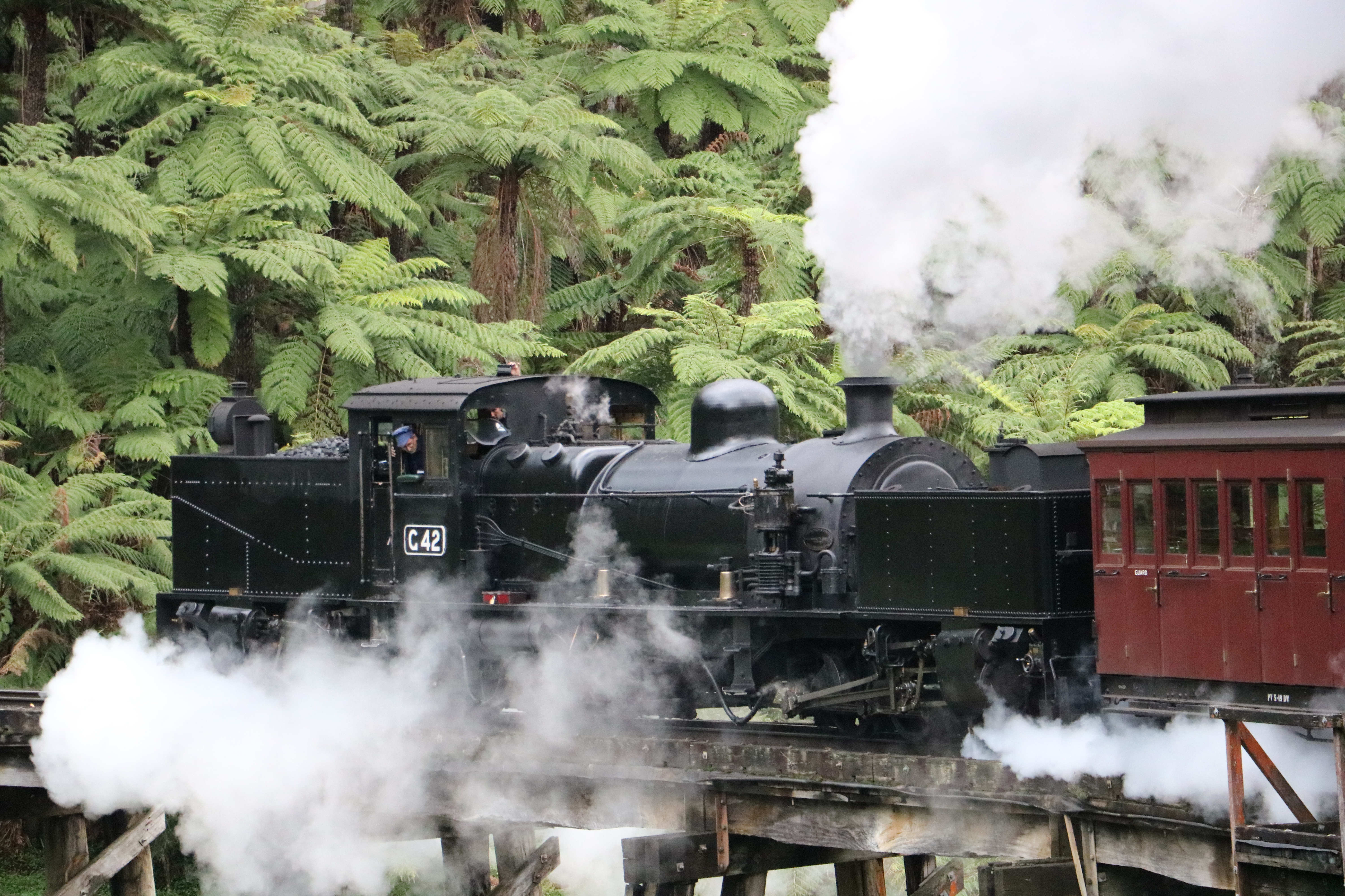 G42 Crossing Monbulk trestle 2019